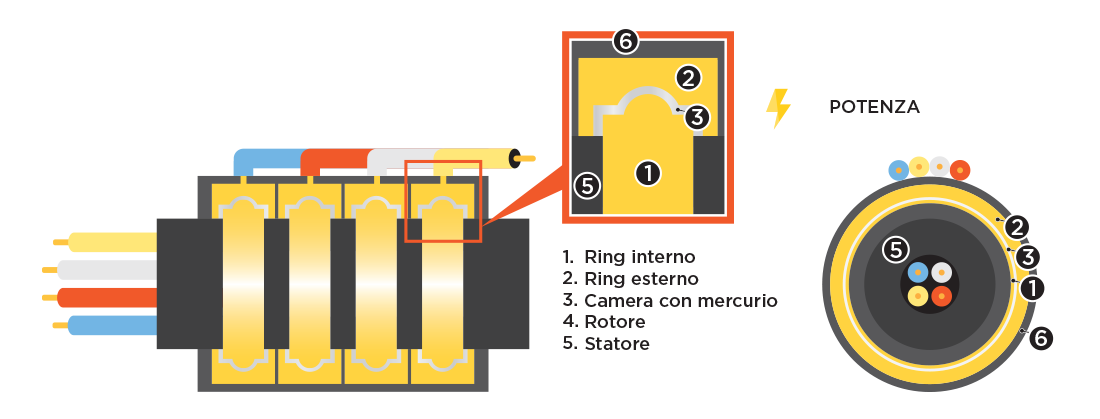 Illustration of a liquid metal Slip Ring